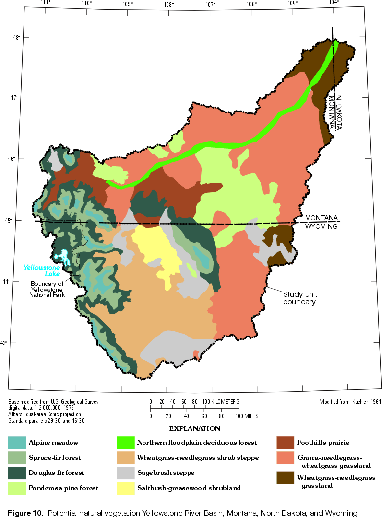 A map of the Potential natural vegetation of Yellowstone River Basin made by the U.S. Geological Survey